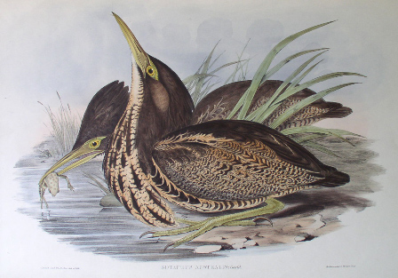 Hūrepo or Matuku, Australasian Bittern, Botaurus poiciloptilus, also known as the Brown Bittern.